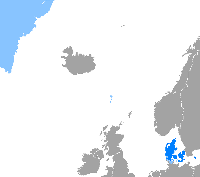 regions where Danish is the language of the majority regions where Danish is the language of a significant minority